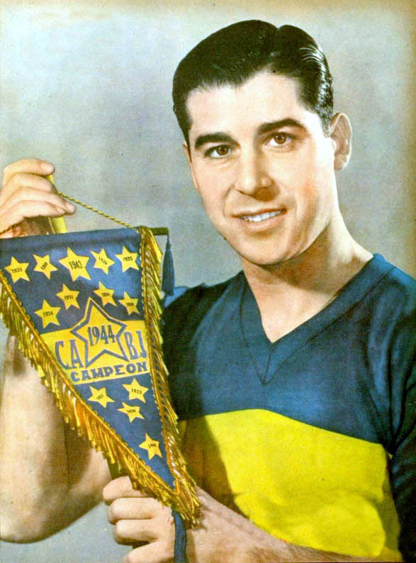 Ernesto Lazzatti in 1945. The cover of El Grafico honored his five championships won with the club.